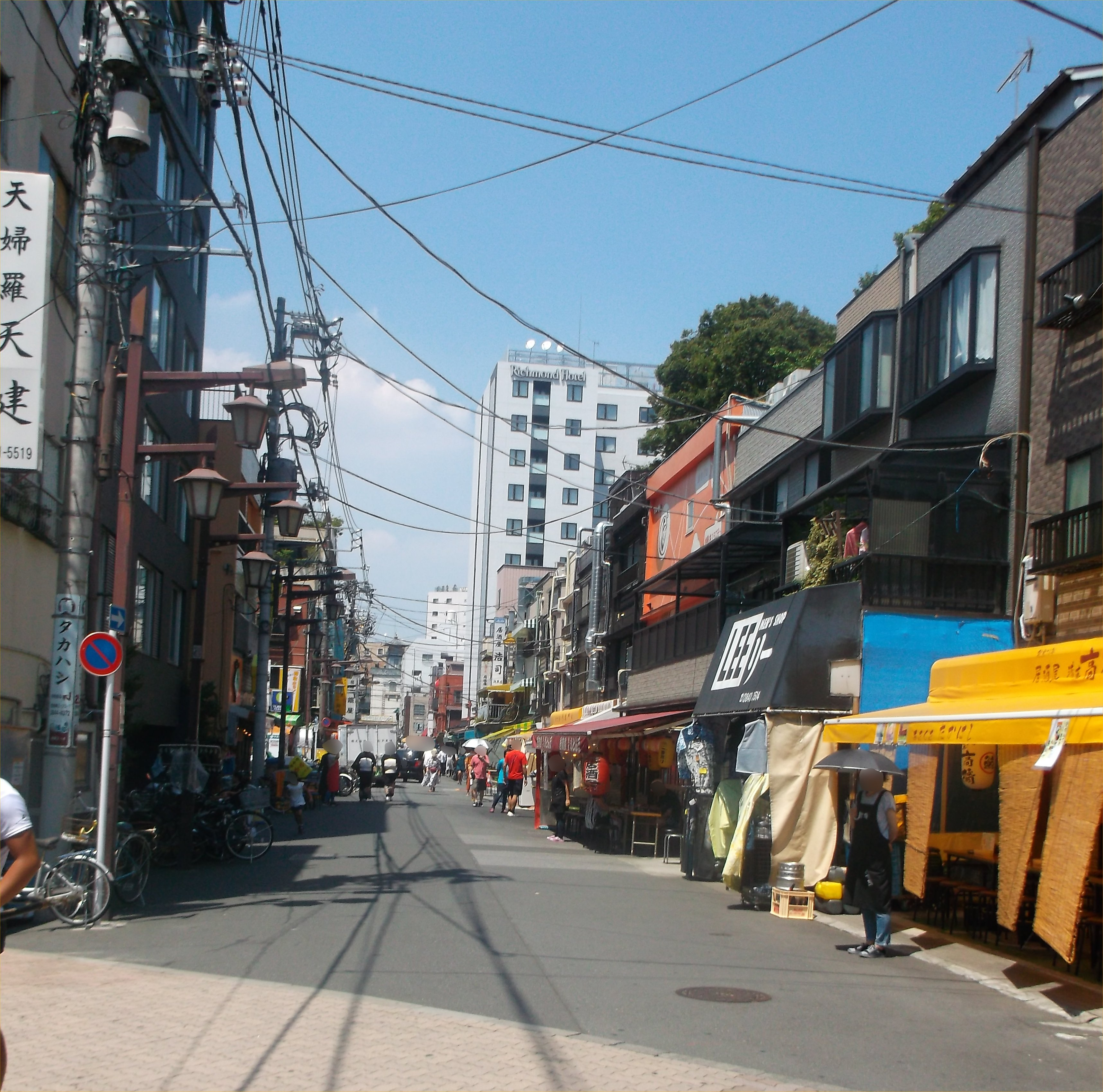 A photo of "Koen-Hondori-Shopping Street"(also called "Hoppy Street or Nikomi Street).Asakusa,Taito-ku,Tokyo,Japan.